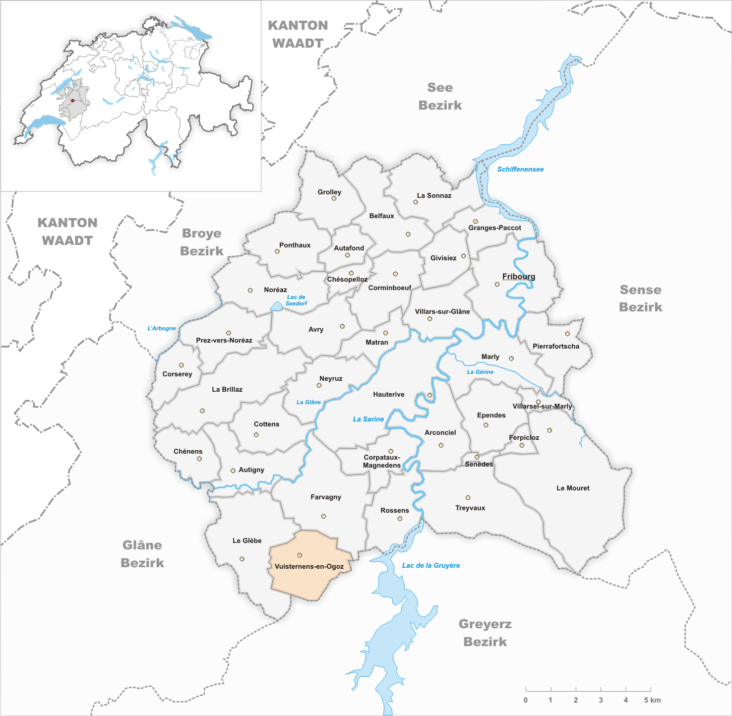 Municipality Vuisternens-en-Ogoz